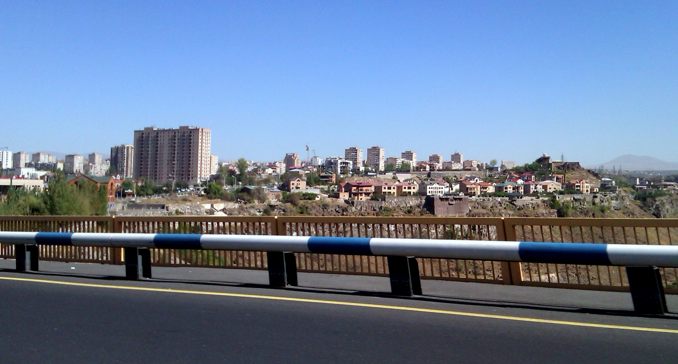 Davtashen district, Yerevan, Armenia.